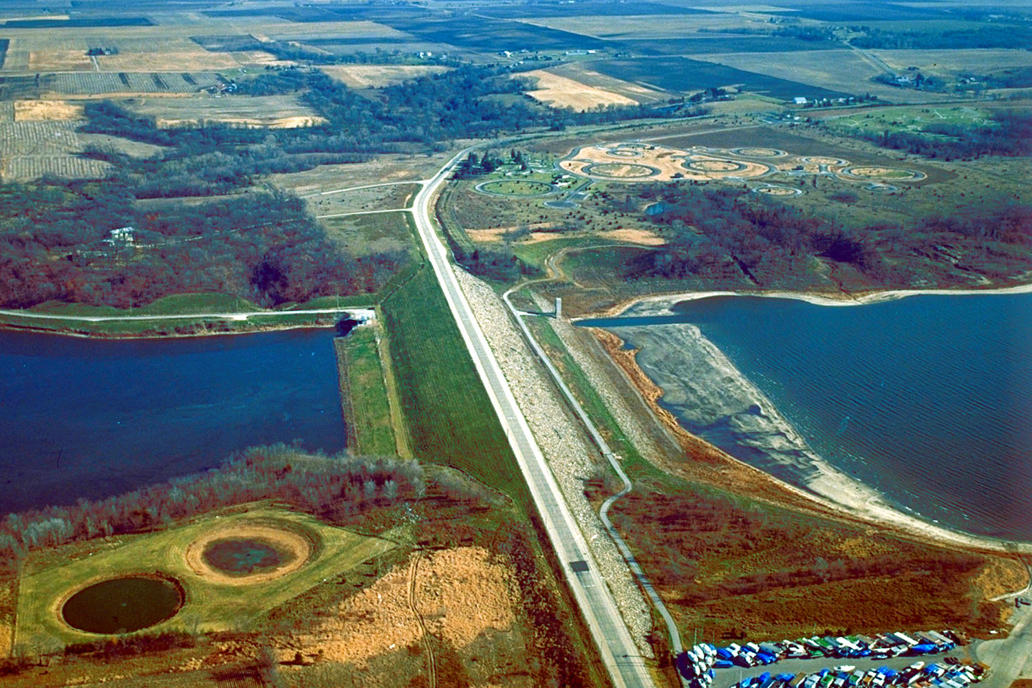 Barrier Dam on Saylorville Lake near Polk City, Iowa, USA. The main dam is Saylorville Dam, but in order to fill the lake, this second dam, Barrier Dam had to be constructed on one arm of the lake.